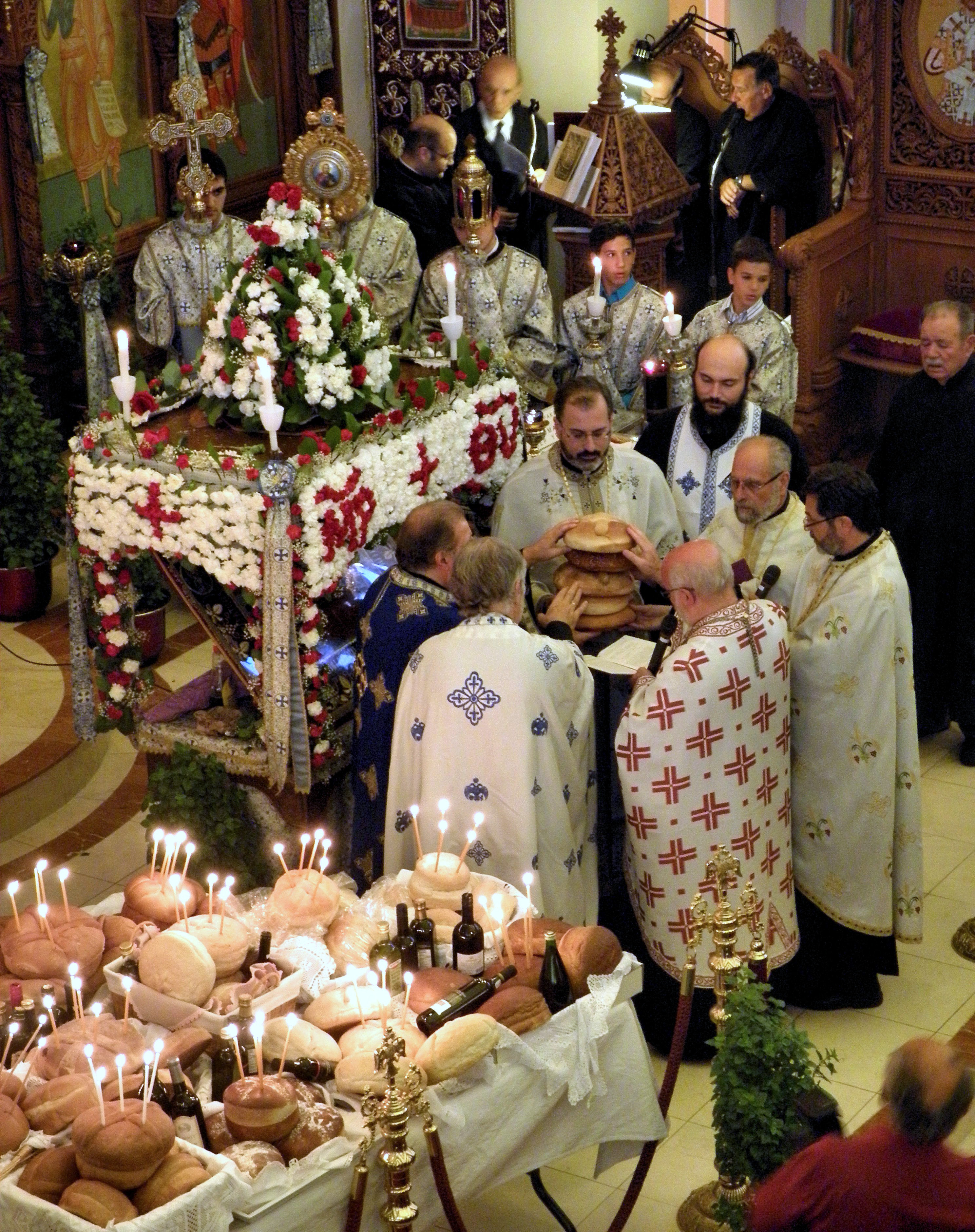 Artoklasia (“breaking of bread”) service, during the Feast of the Dormition of the Virgin Mary, with hymns, petitions and prayers for health, well-being and strength. The five loaves are reminiscent of the five loaves that Jesus Christ blessed in the desert and by which five thousand of His followers were fed. In turn, these five loaves signified the five books of Moses (Pentateuch), according to St Augustine. Annunciation of the Virgin Mary Greek Orthodox Cathedral, Toronto, Ontario, Canada.